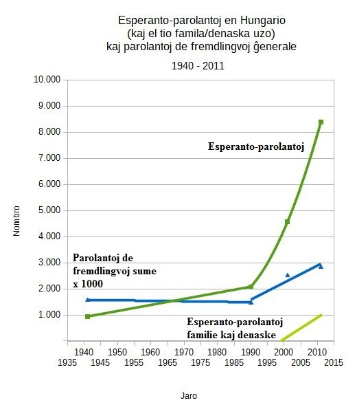 Number of Esperanto speaking people in Hungary (census data). For 2001 and 2011 those with Esperanto as family language or mother tongue. For comparison those with knowledge of any foreign language